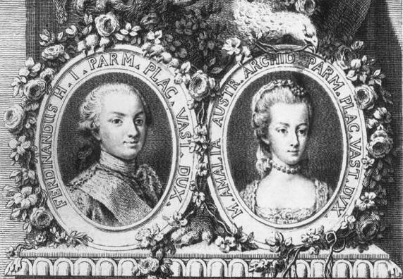 Duke Ferdinand I. of Bourbon-Parma and his wife Archduchess Maria Amalia of Austria, Duchess of Bourbon Parma. Duke Ferdinand I. of Bourbon-Parma was the only son of Duke Felipe I. of Bourbon-Parma and his wife Princess Louise Elizabeth of France, daughter of King Louis XV. of France. Duchess Maria Amalia of Bourbon-Parma was a daughter of Holy Roman Emperor Franz I. Stephan of Lorraine and his wife Empress Maria Theresia of Austria, Stich, 1769